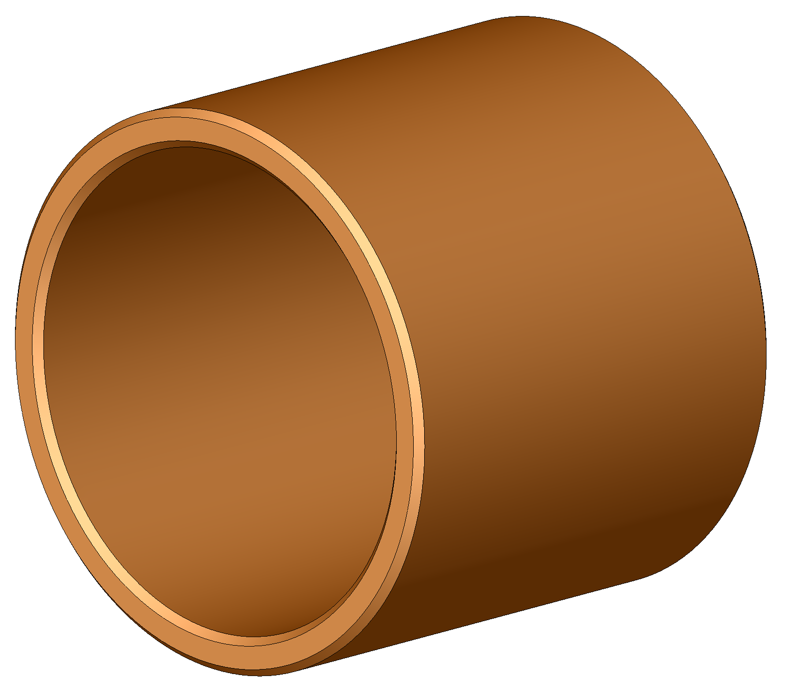 Plain bearing without flange (DIN ISO 4379, type G).